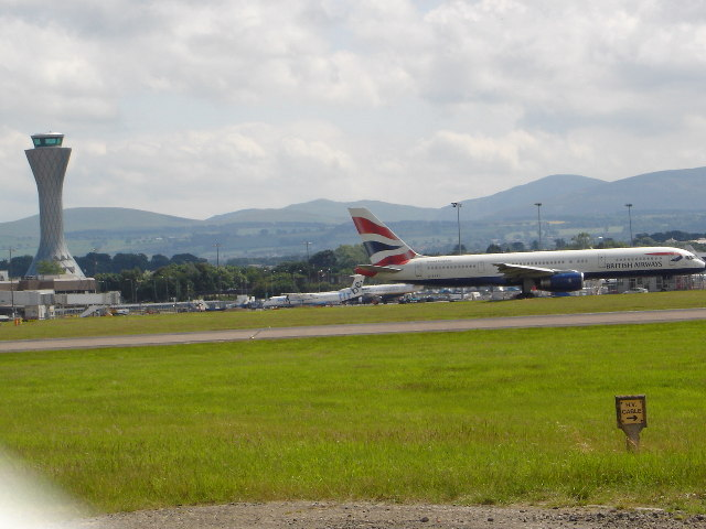 New control tower and runway Edinburgh Airport